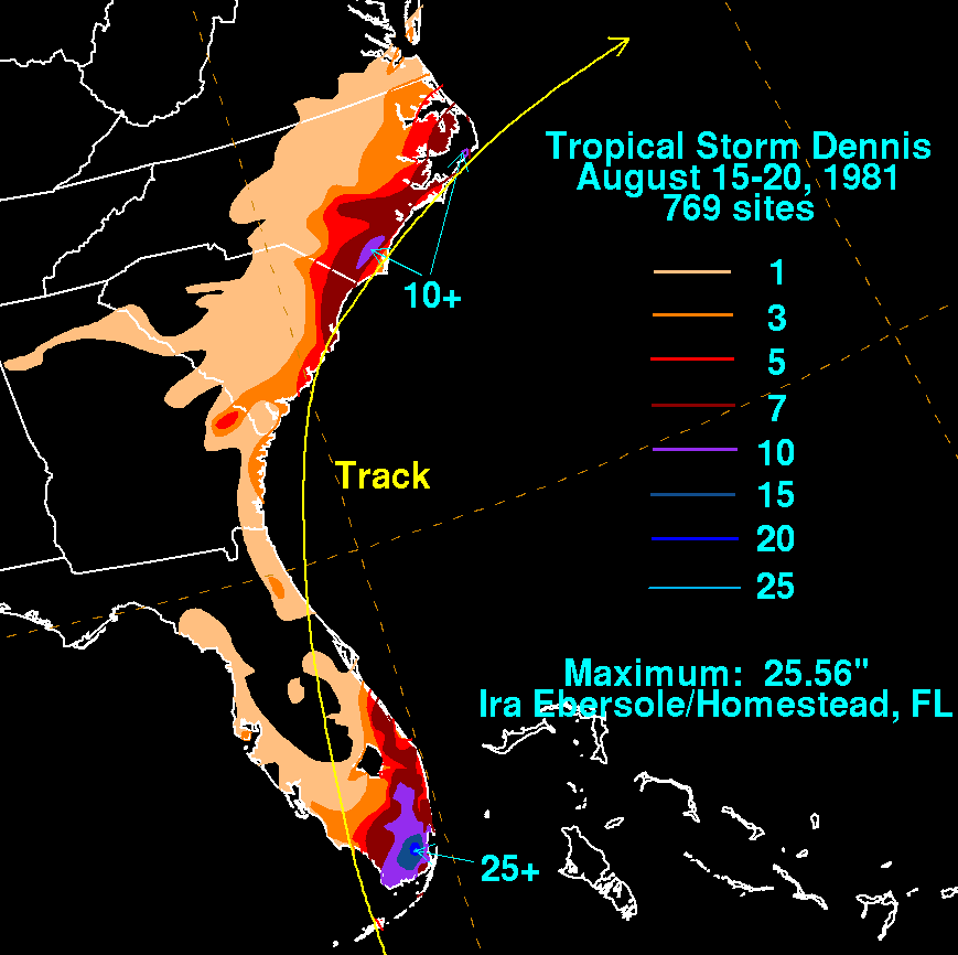 Storm total rainfall map of Hurricane Dennis during August 1981.